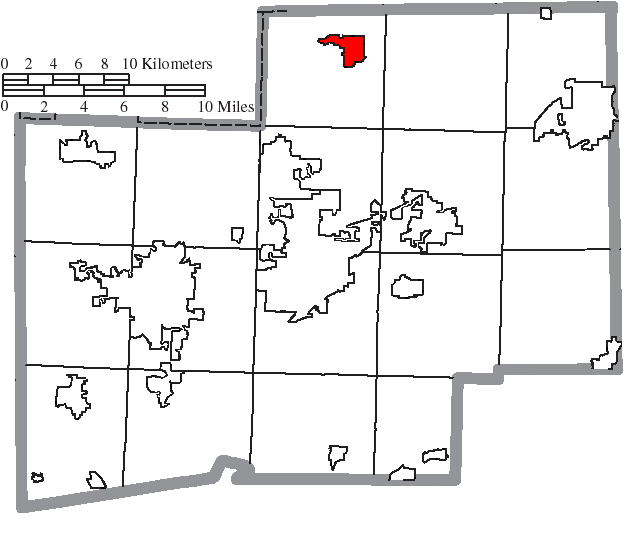 Map of the municipal and township boundaries of Stark County, Ohio, United States, as of the 2000 census, with the location of the village of Hartville highlighted. Township borders are shown only in unincorporated areas in order to differentiate incorporated and unincorporated areas more clearly.